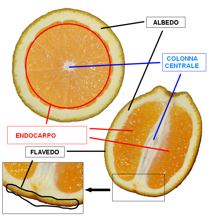 Orange cross section picture with legend in Italian